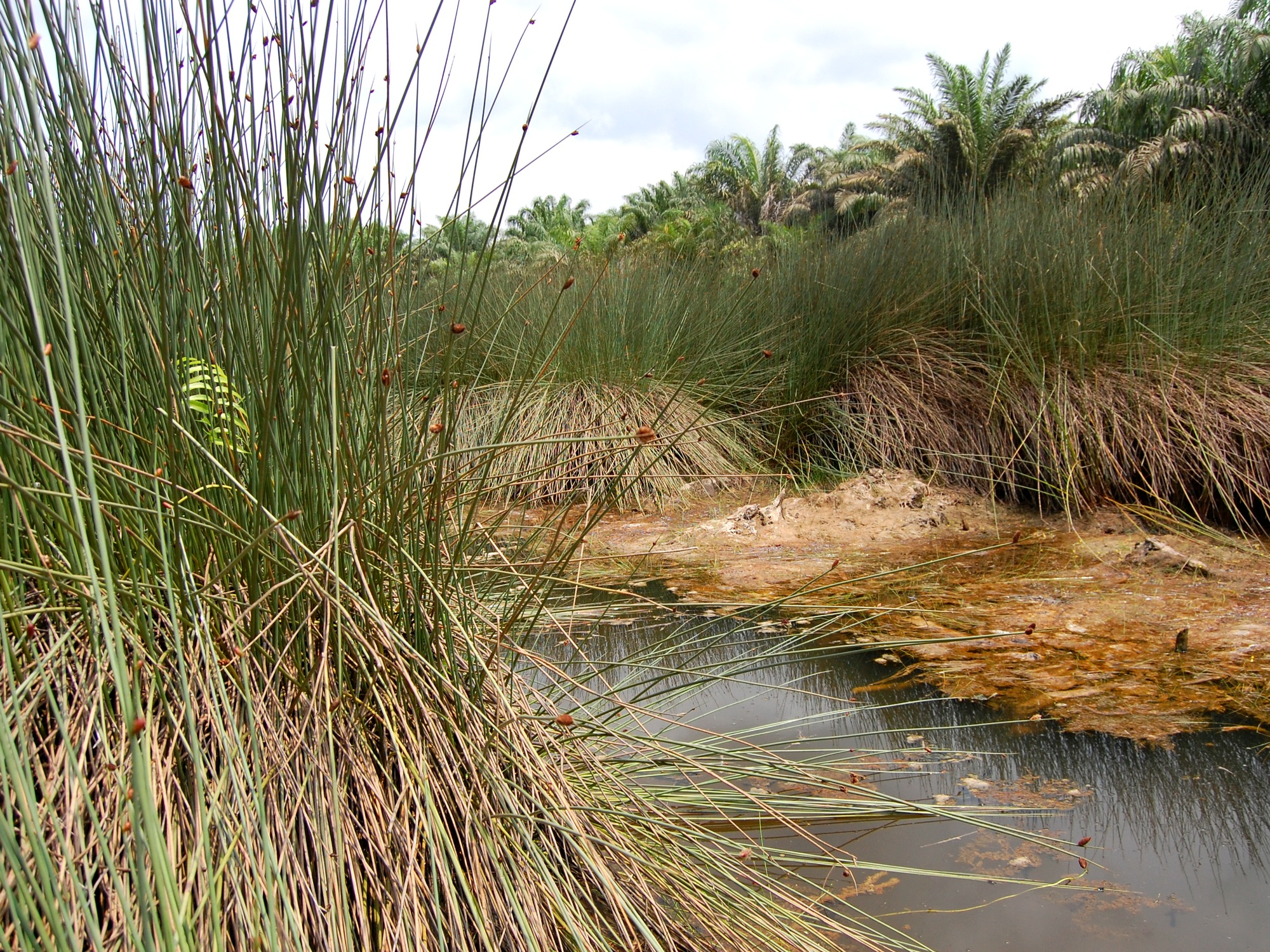 Lepironia articulata at freshwater marsh next to an oil-palm plantation, near Pangkalan Bun, Central Kalimantan, Indonesia.